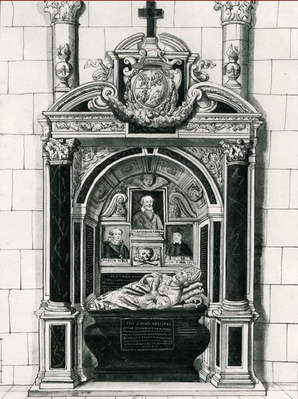 Claude de Rueil